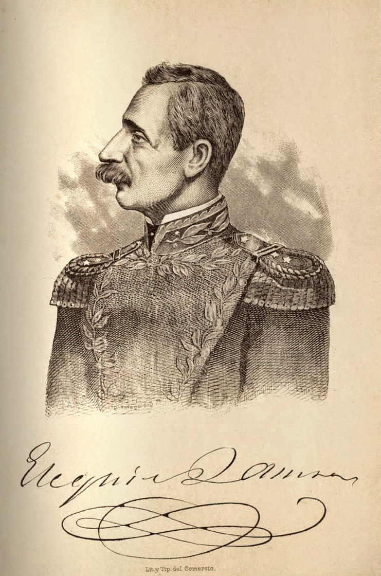 Ezequiel Zamora, Venezuelan military man of the XIXth century